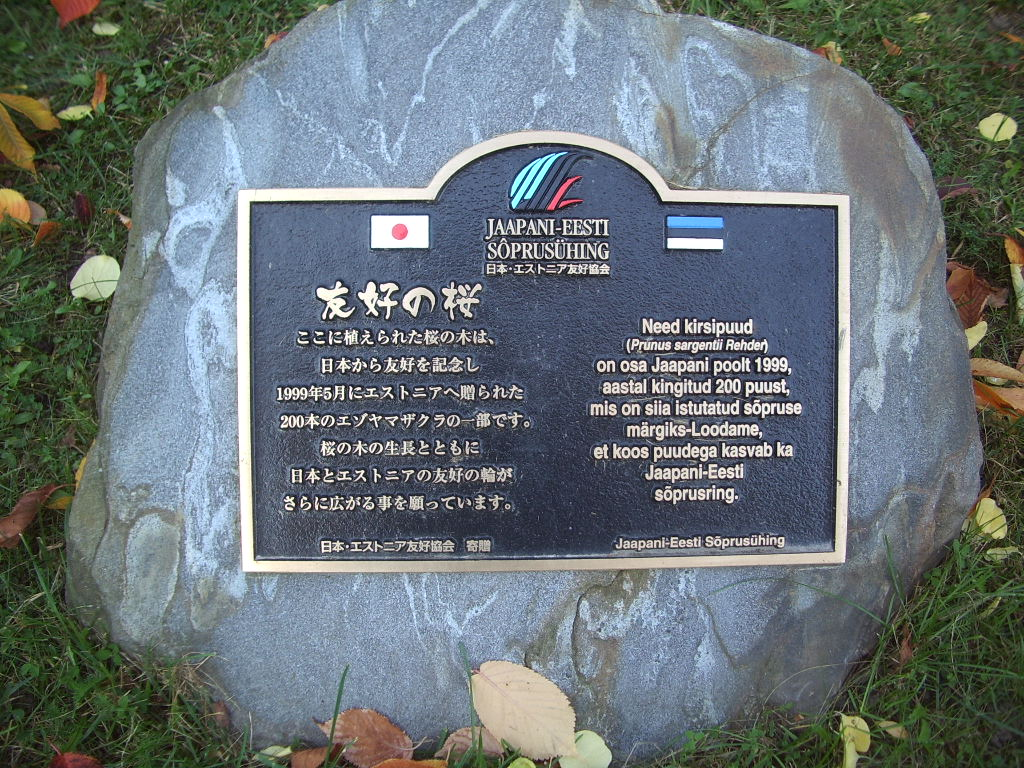 A sign for cherry-trees in Tallinn stands for friendship between Estonia and Japan